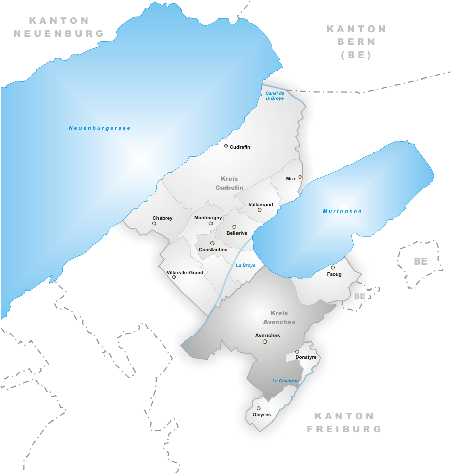 Municipality Avenches